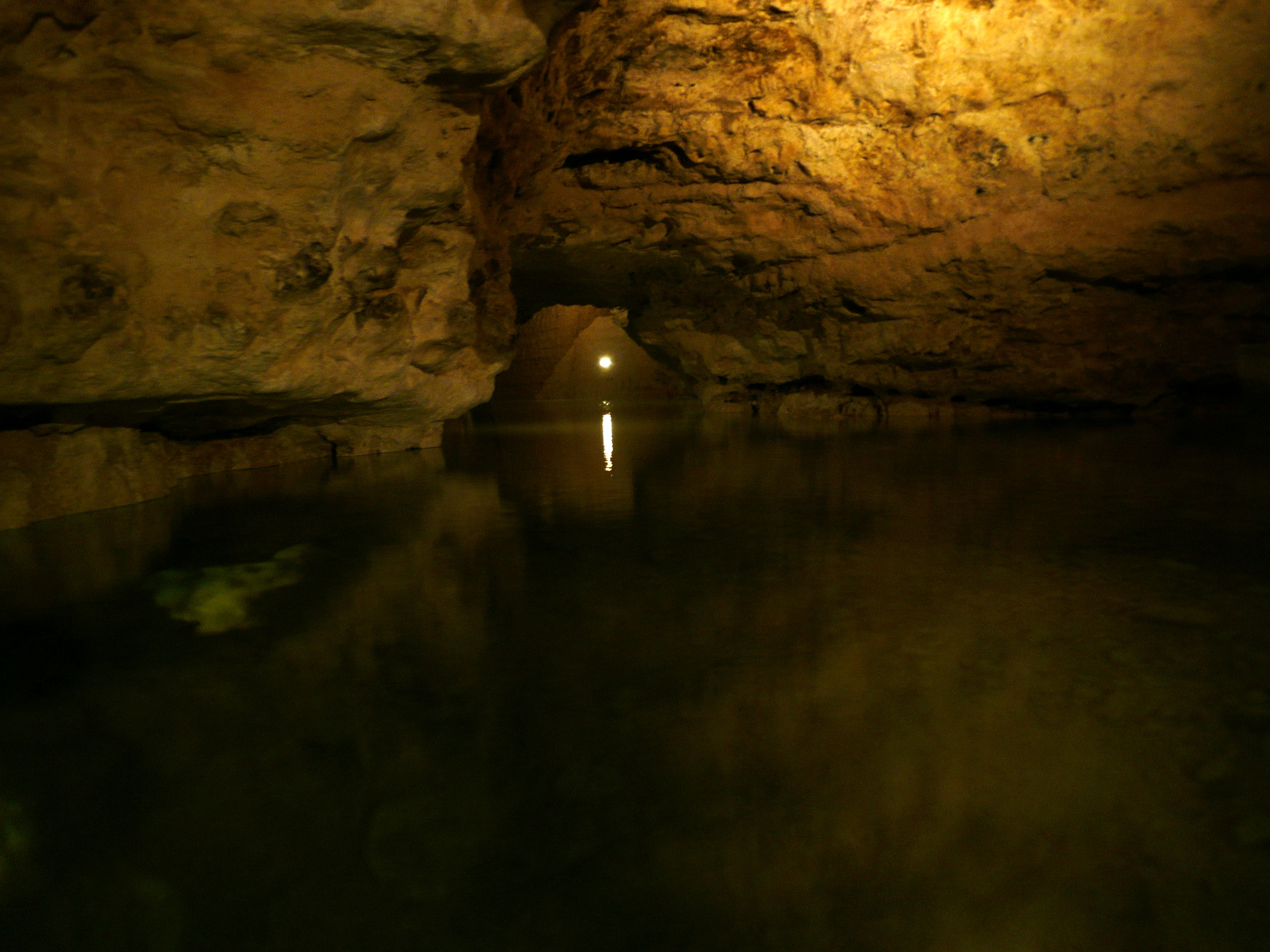 Cave with water in Tapolca, Hungary